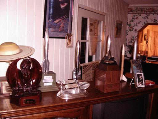 Some of Kelly Freas's awards, photographed by the Epopt at Kelly's 82nd birthday party.